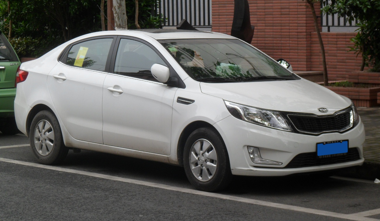 Kia K2 QB sedan photographed in Shanghai, China.